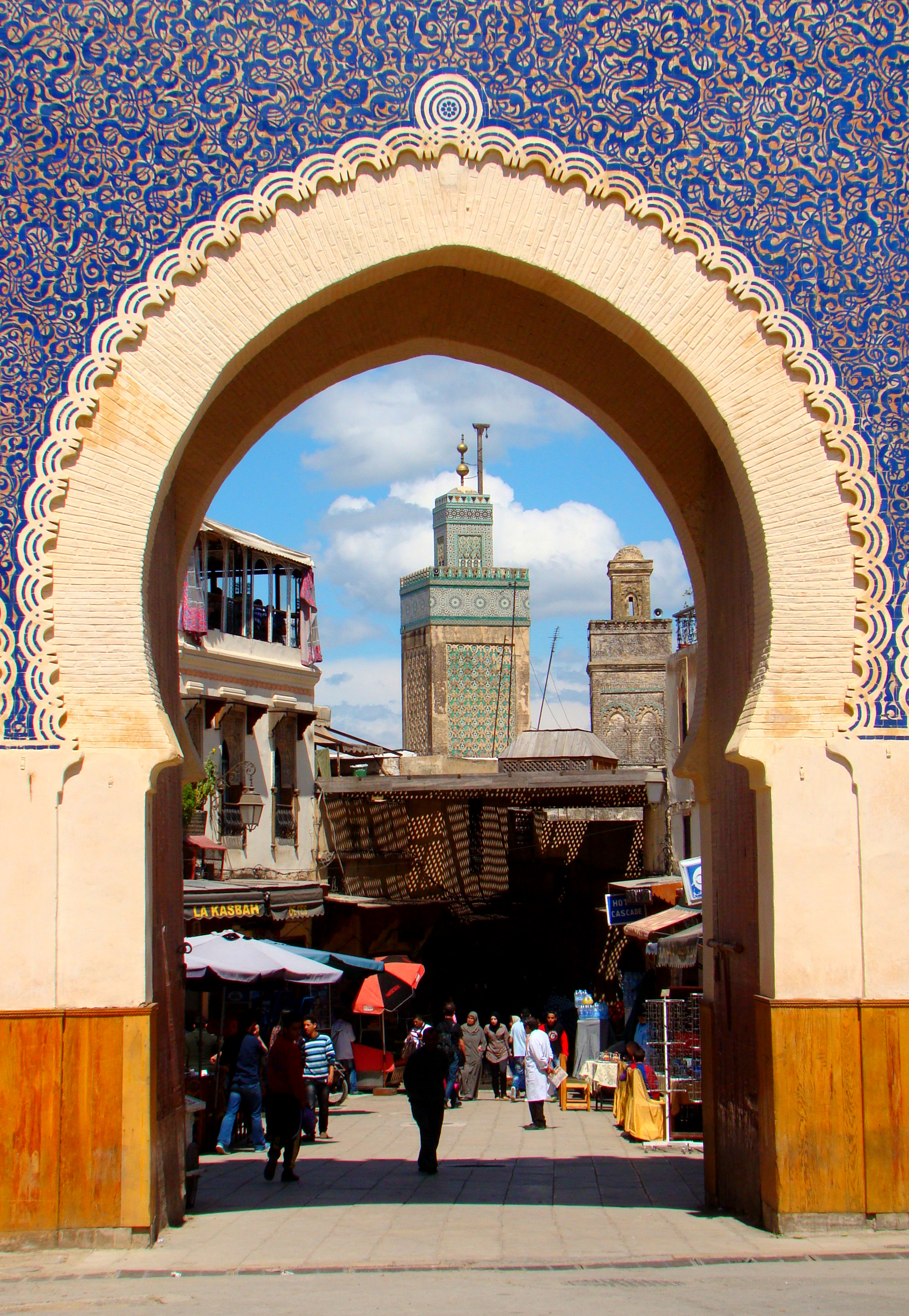 The minaret of Bou Inania Madrasa seen through the Bab Bou Jeloud, a distance of about 150 metres.